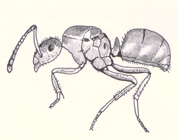 A drawing by Halvard from Norway.